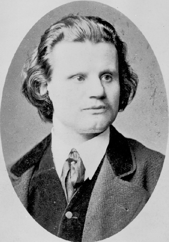 Photo of German violinist Heinrich de Ahna (1832-1892)